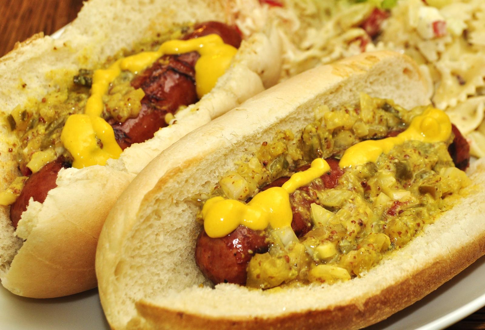 Mmm... hot dogs on the 4th of July